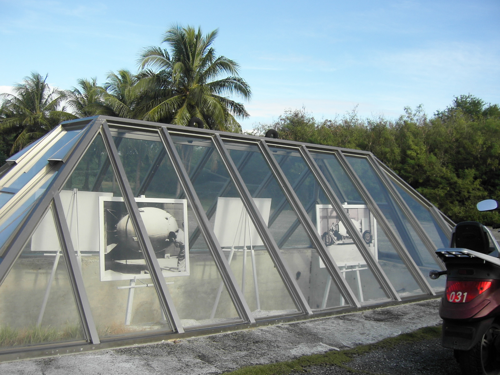 Atomic Bomb Pits - Tinian